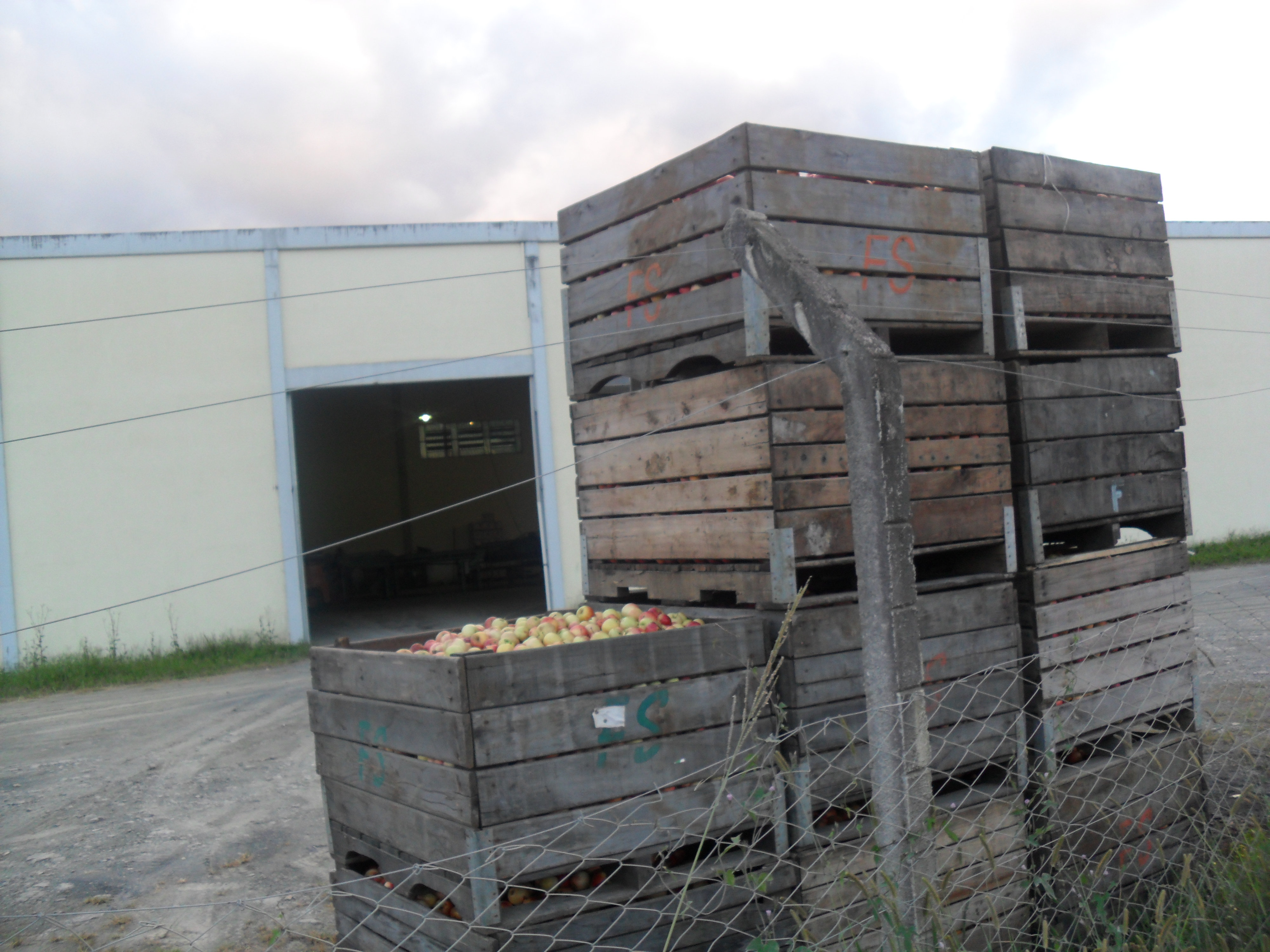 Urubici